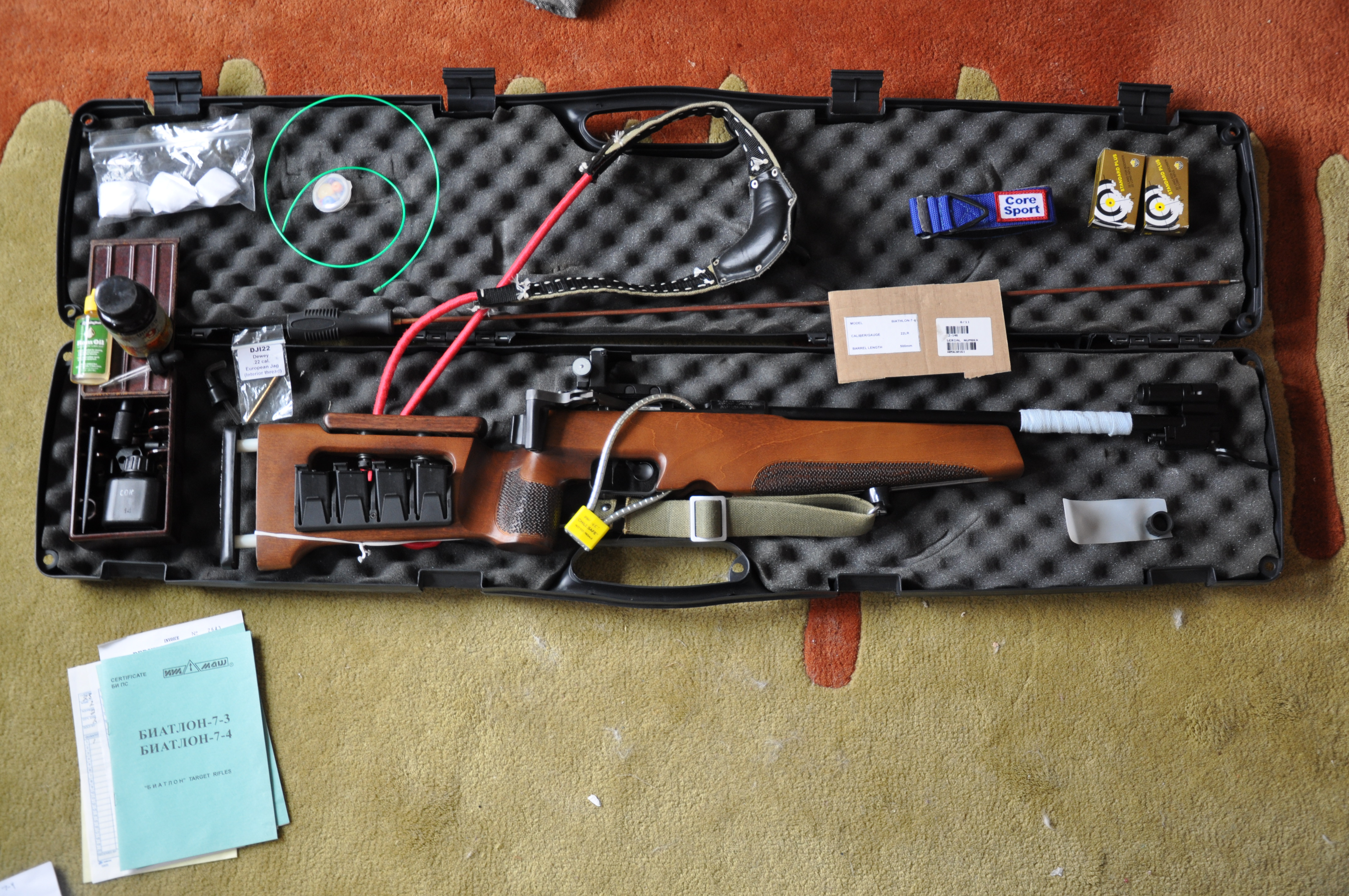 Izhmash 7-4 biathlon rifle in gun case with accessories